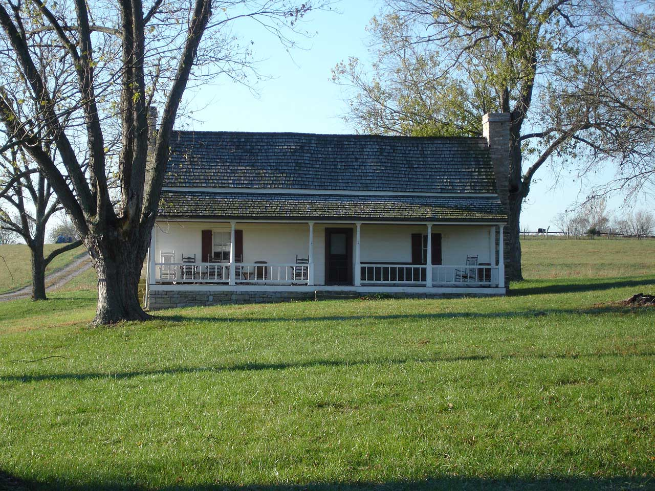 Perryville battlefield: Henry P. "Squire" Bottom house.